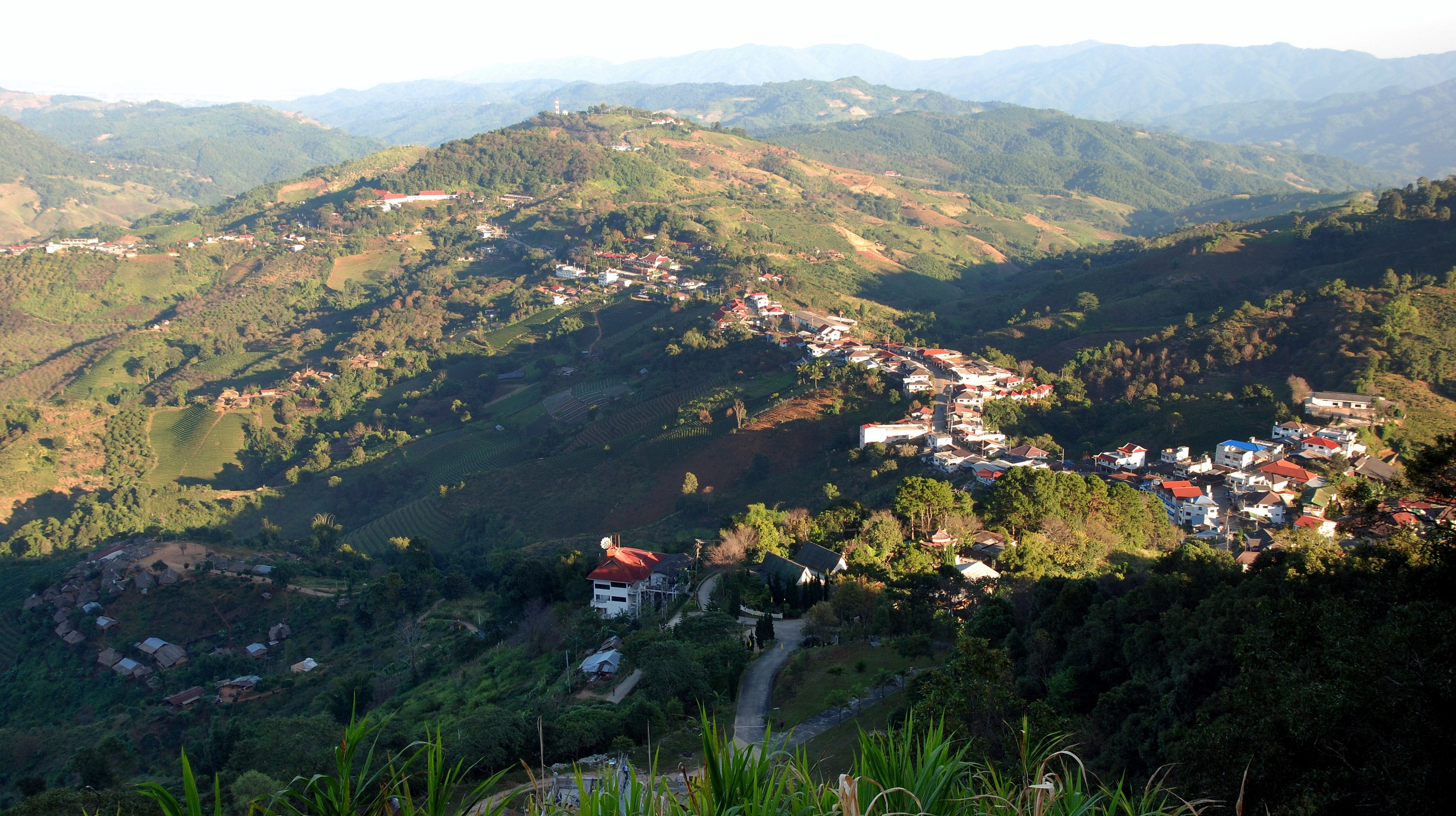 View over the eastern end of the town of Santikhiri (Mae Salong), November 2007. The eastern end is situated on a ridge along road 1234.